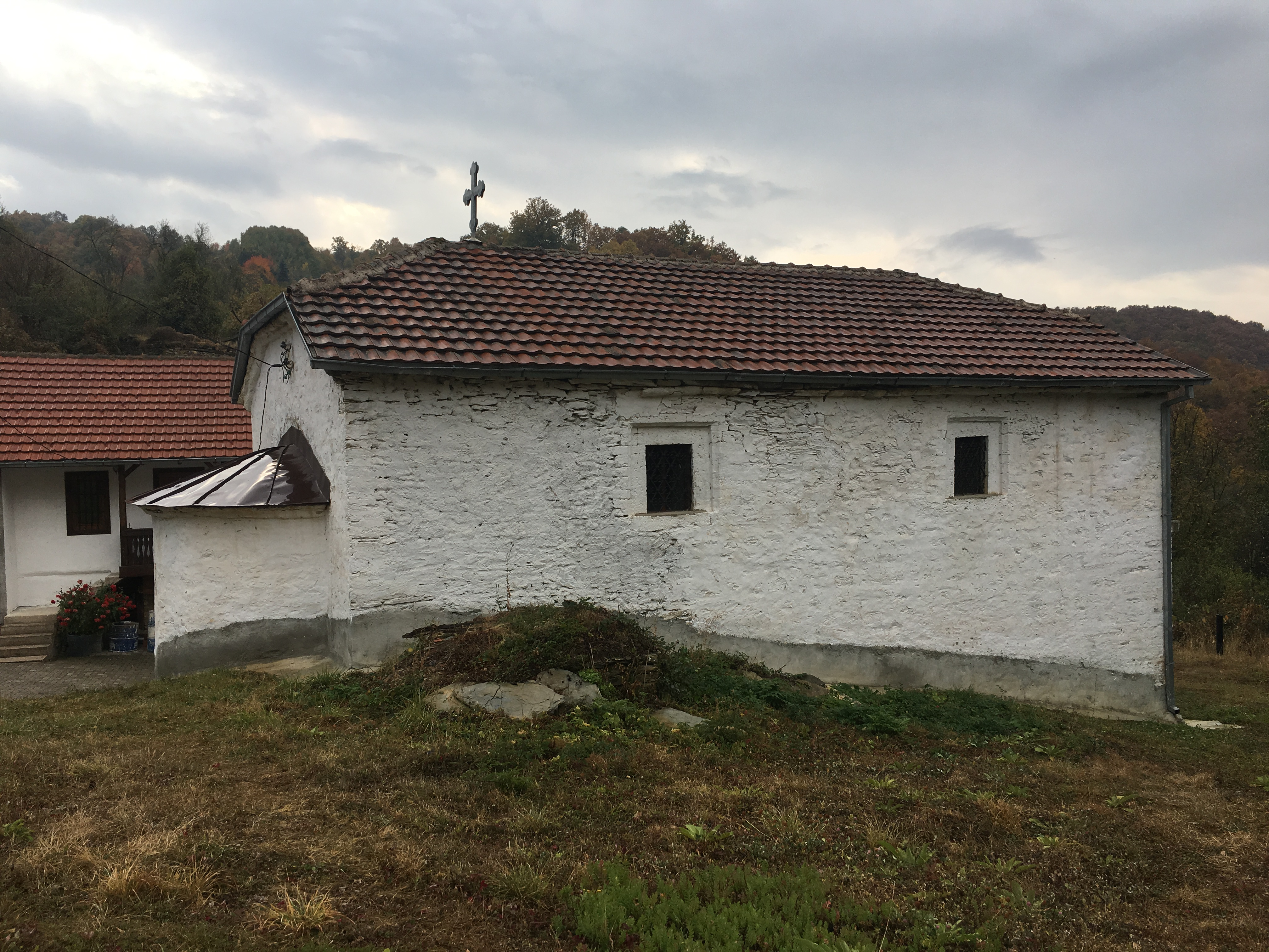 Wikiexpedition to Kopačka